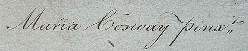 Detail of original engraving "The Hours" by Francesco Bartolozzi showing Maria Cosway pinxit